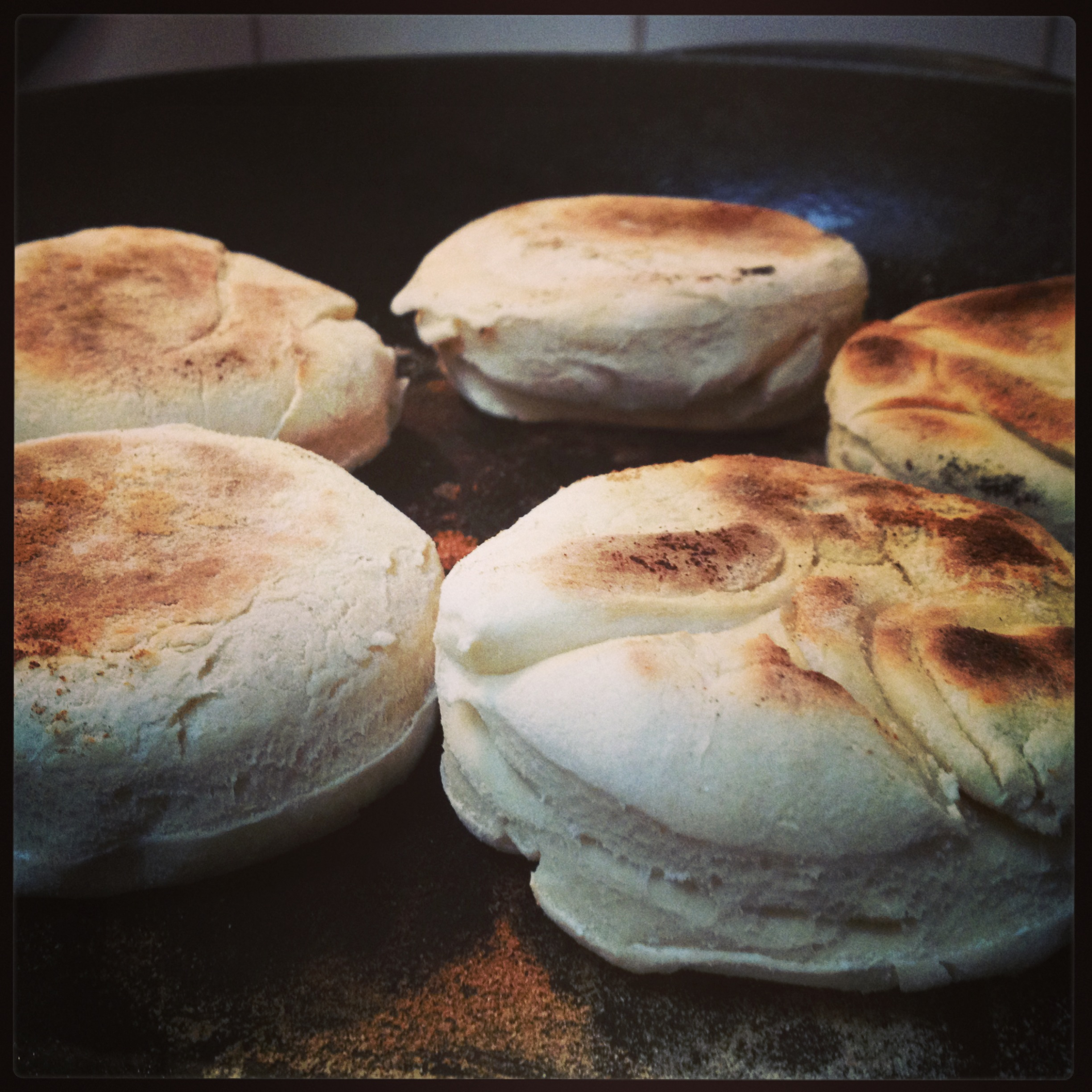 Cooking of English Muffins.